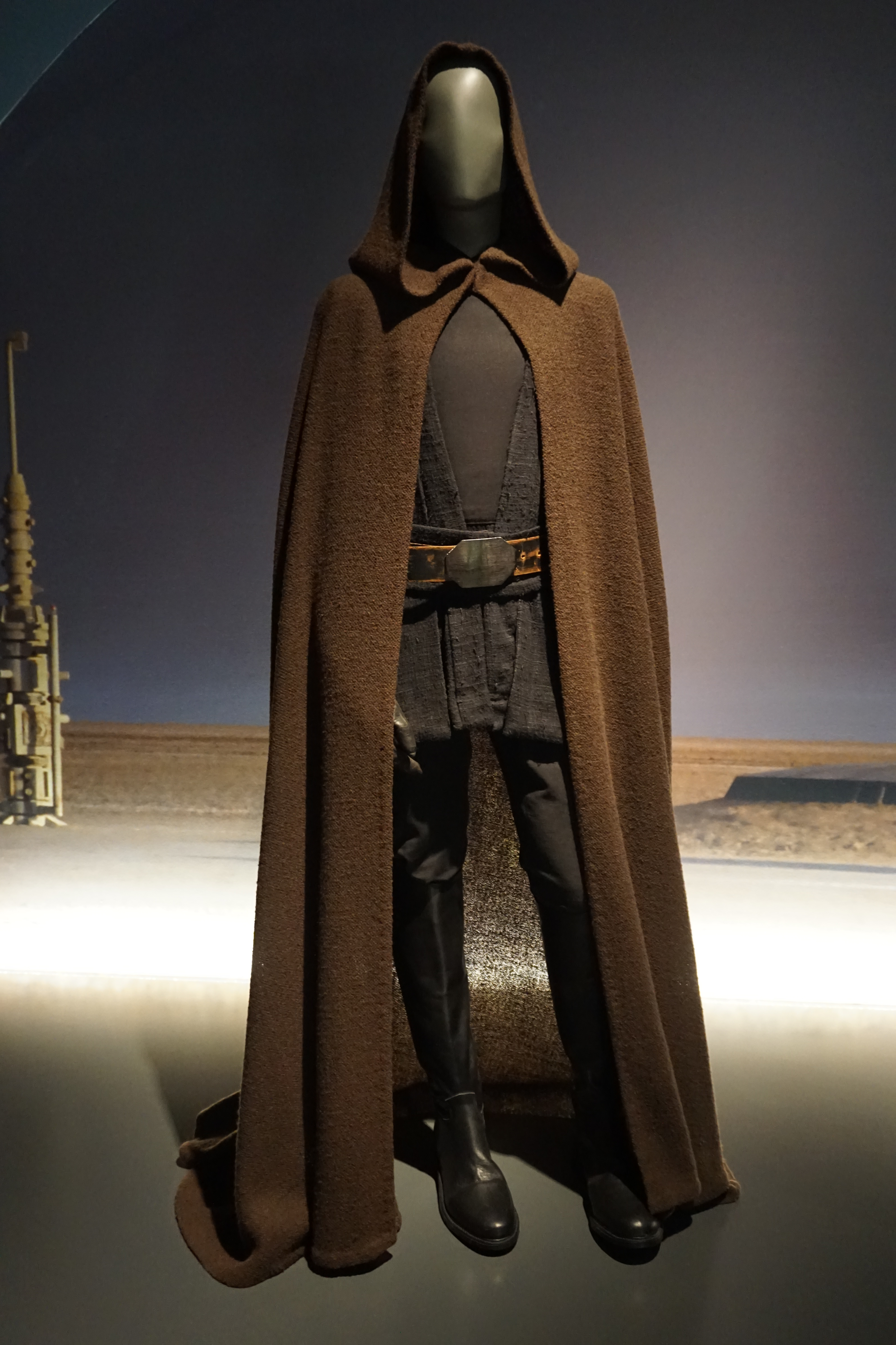 Luke Skywalker's Jedi robes from Star Wars: Episode VI – Return of the Jedi on display at the Star Wars and the Power of Costume traveling exhibit at the Detroit Institute of Arts in Detroit, Michigan (United States).